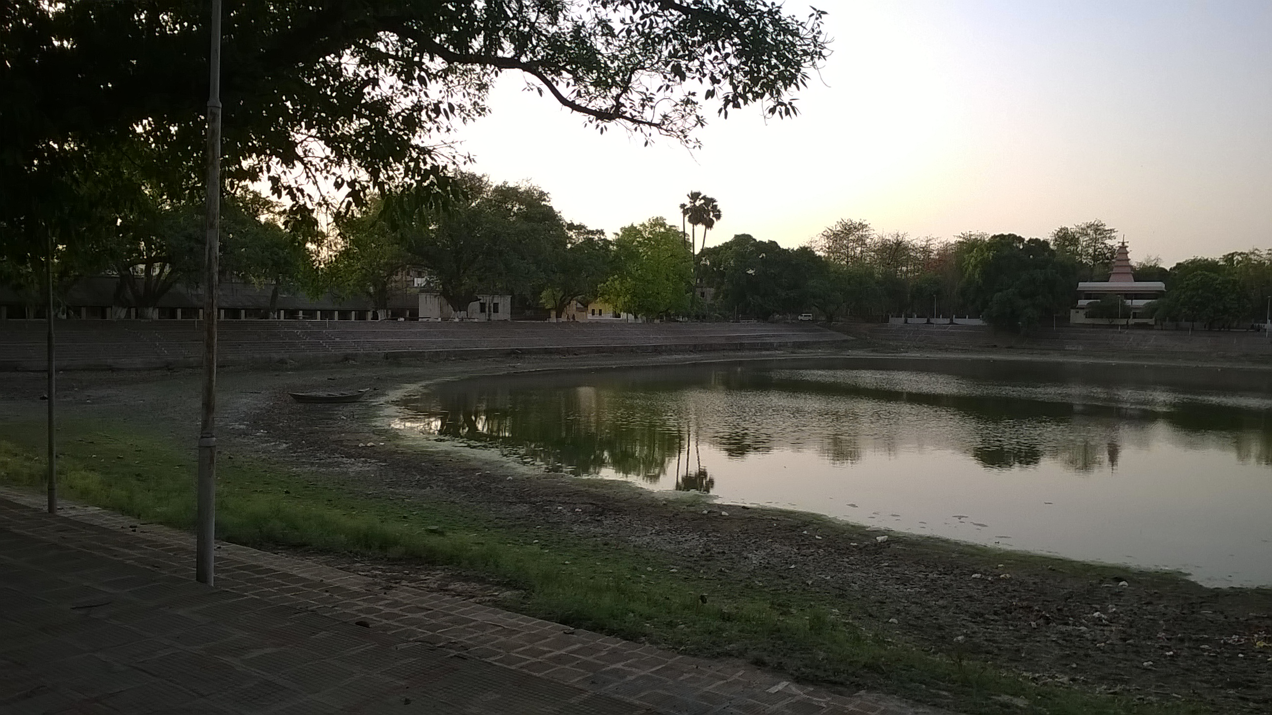 Collect-orate Pond,Ara on a May evening